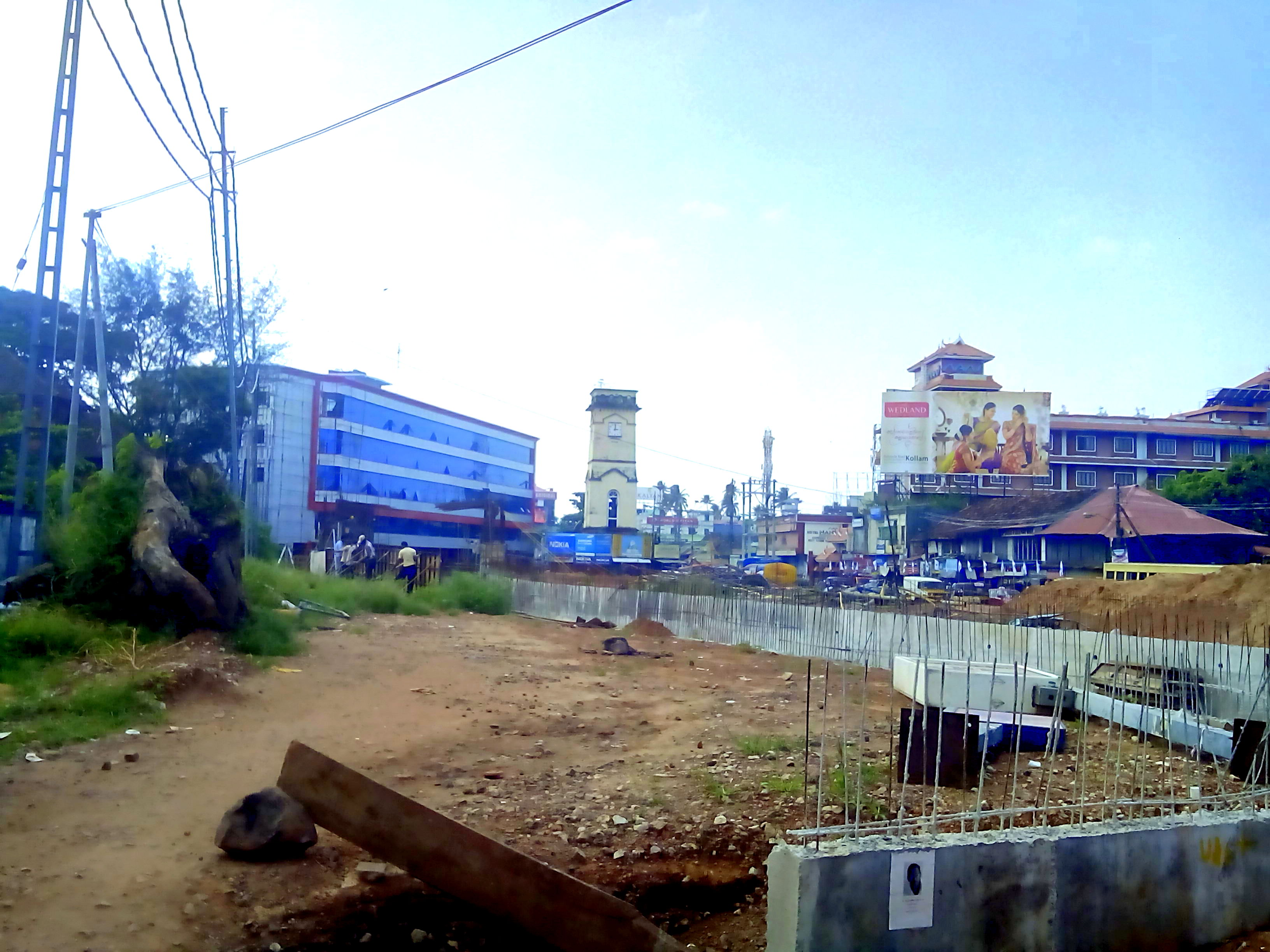 Distant view of Underpass works & Chinnakada Clock Tower in Kollam City